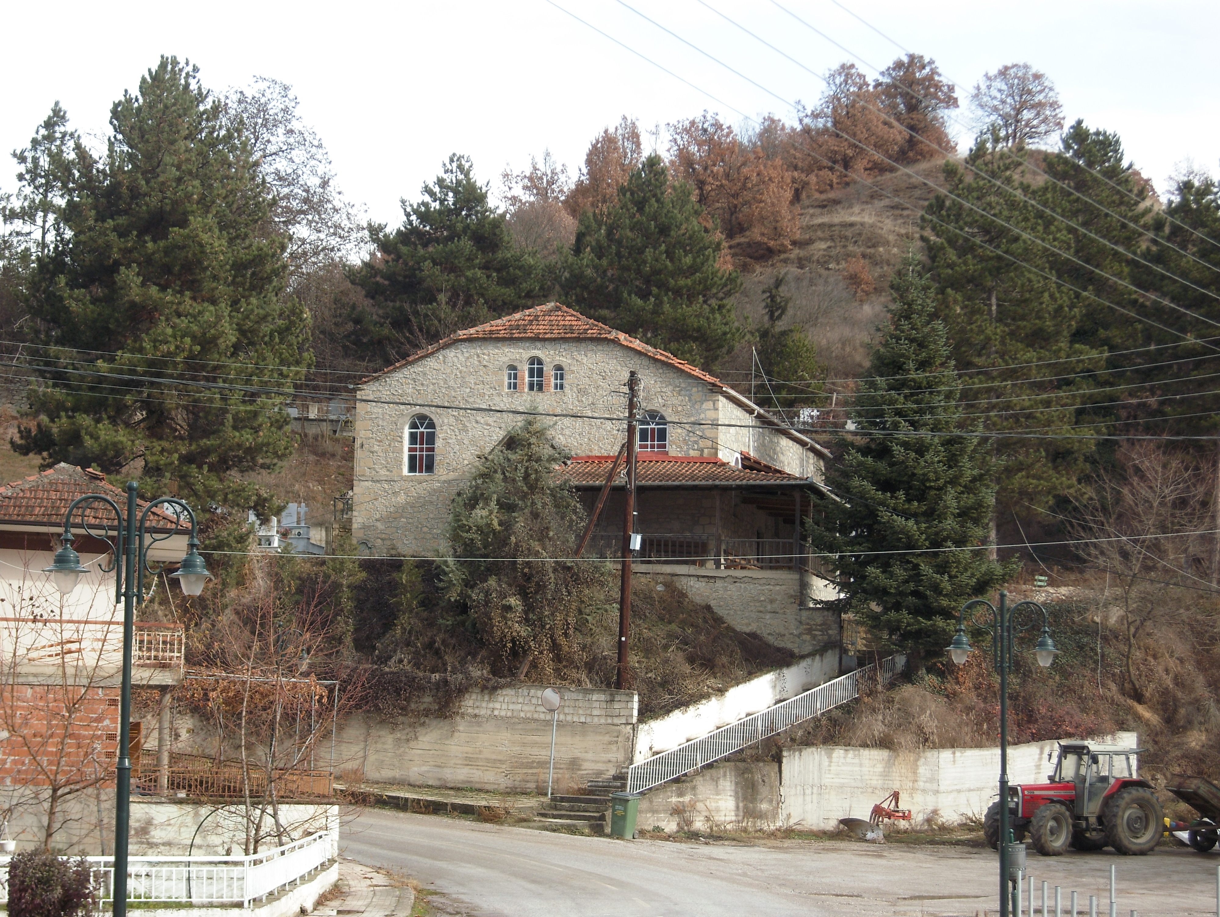 Starichani / Lakomata